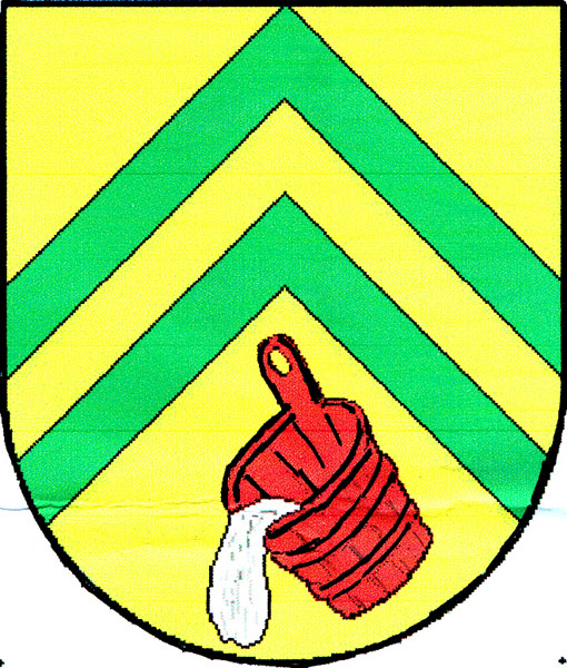 Municipal coat of arms of Nové Sady village, Vyškov District, Czech Republic.